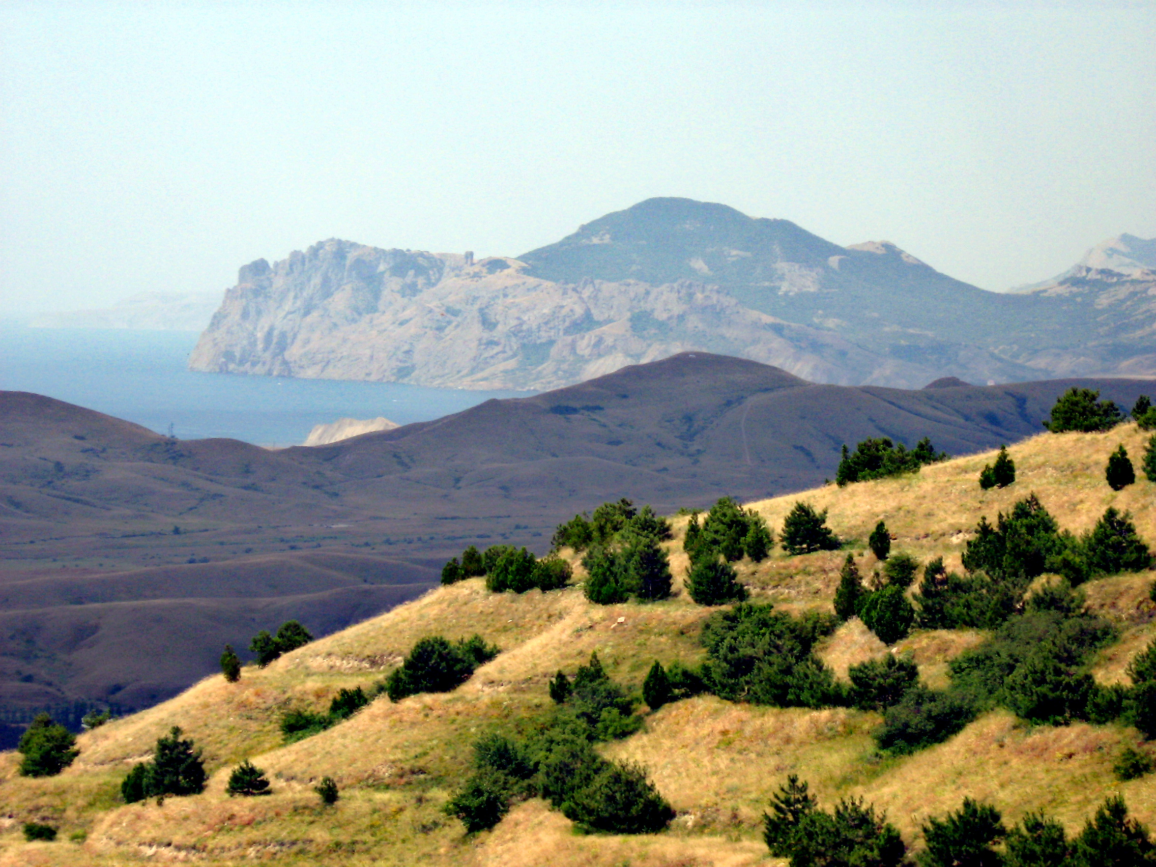 Tepe_Oba mauntains near Theodosia.Crimea. Ukraine.